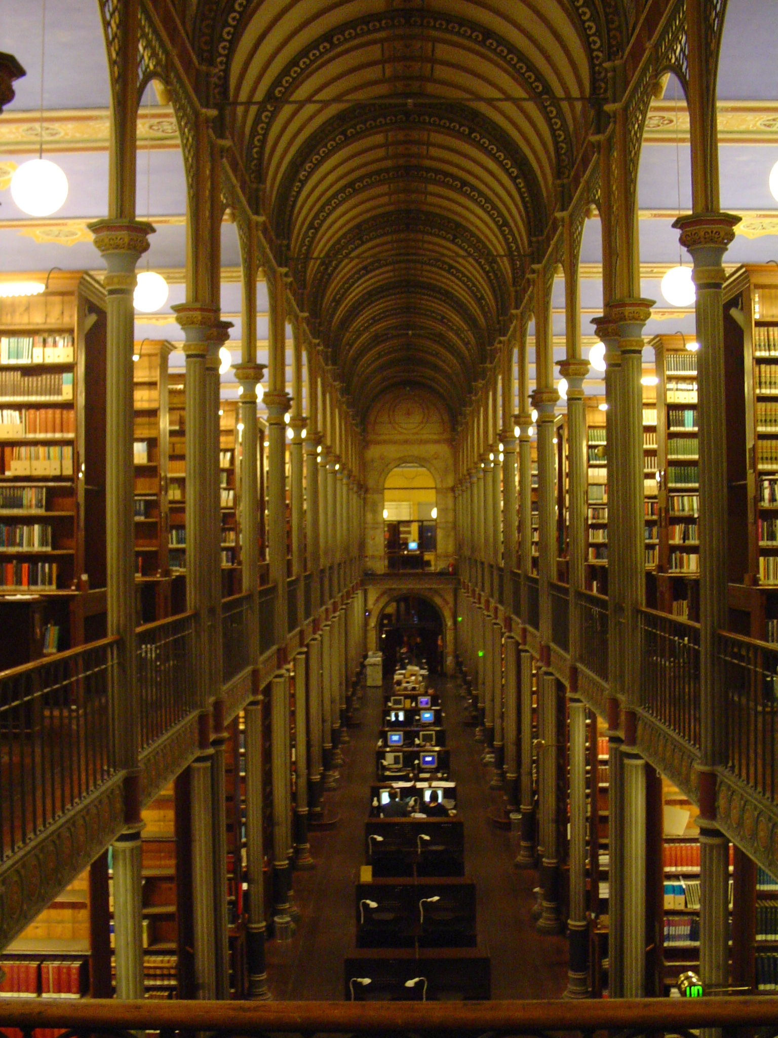 The Danish Royal Library, interior view of building in Fiolstræde. Picture by user:thue on 21/2-2006.